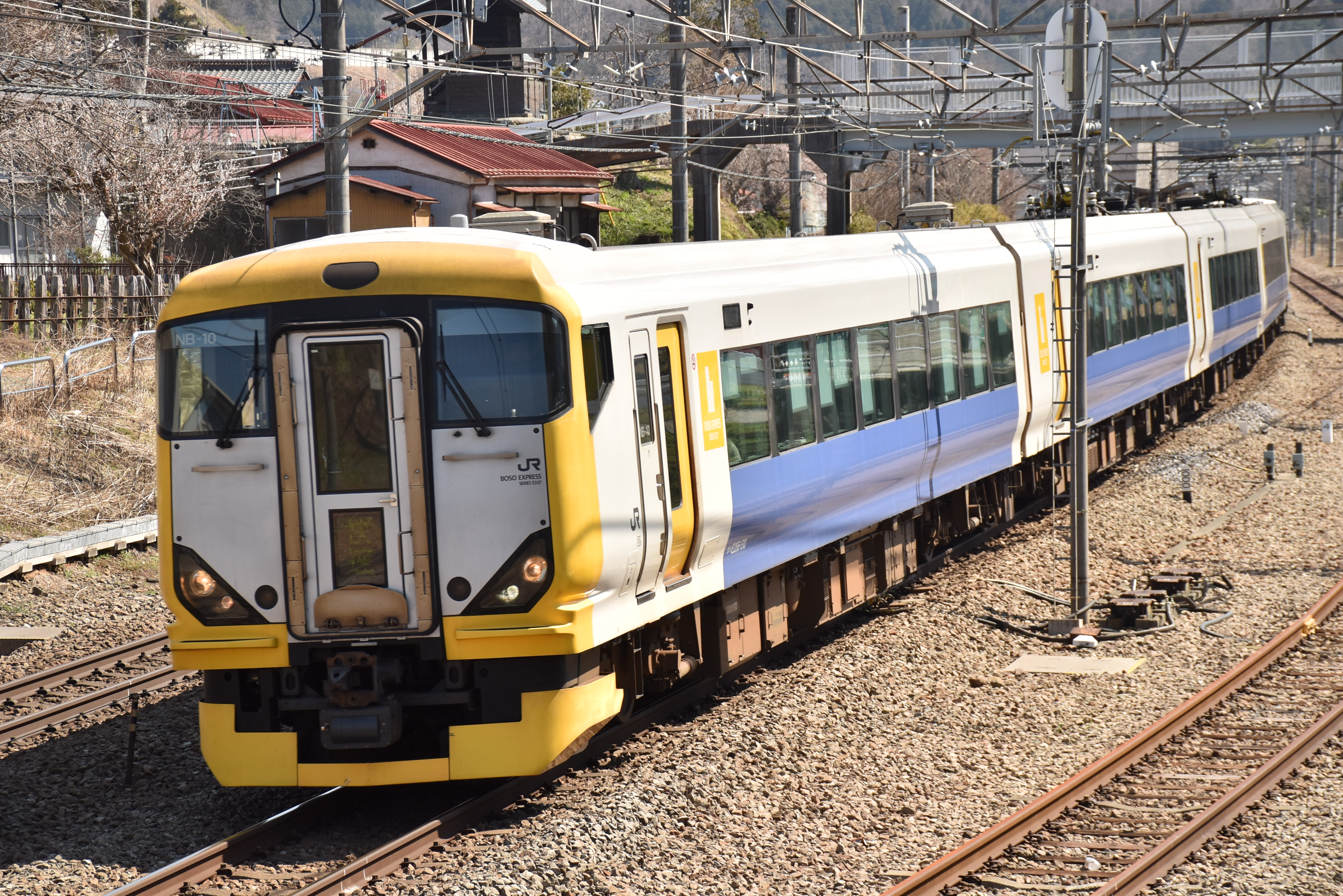 Holiday-Rapid Fujisan E257-500 series as seen on 25 March 2018.